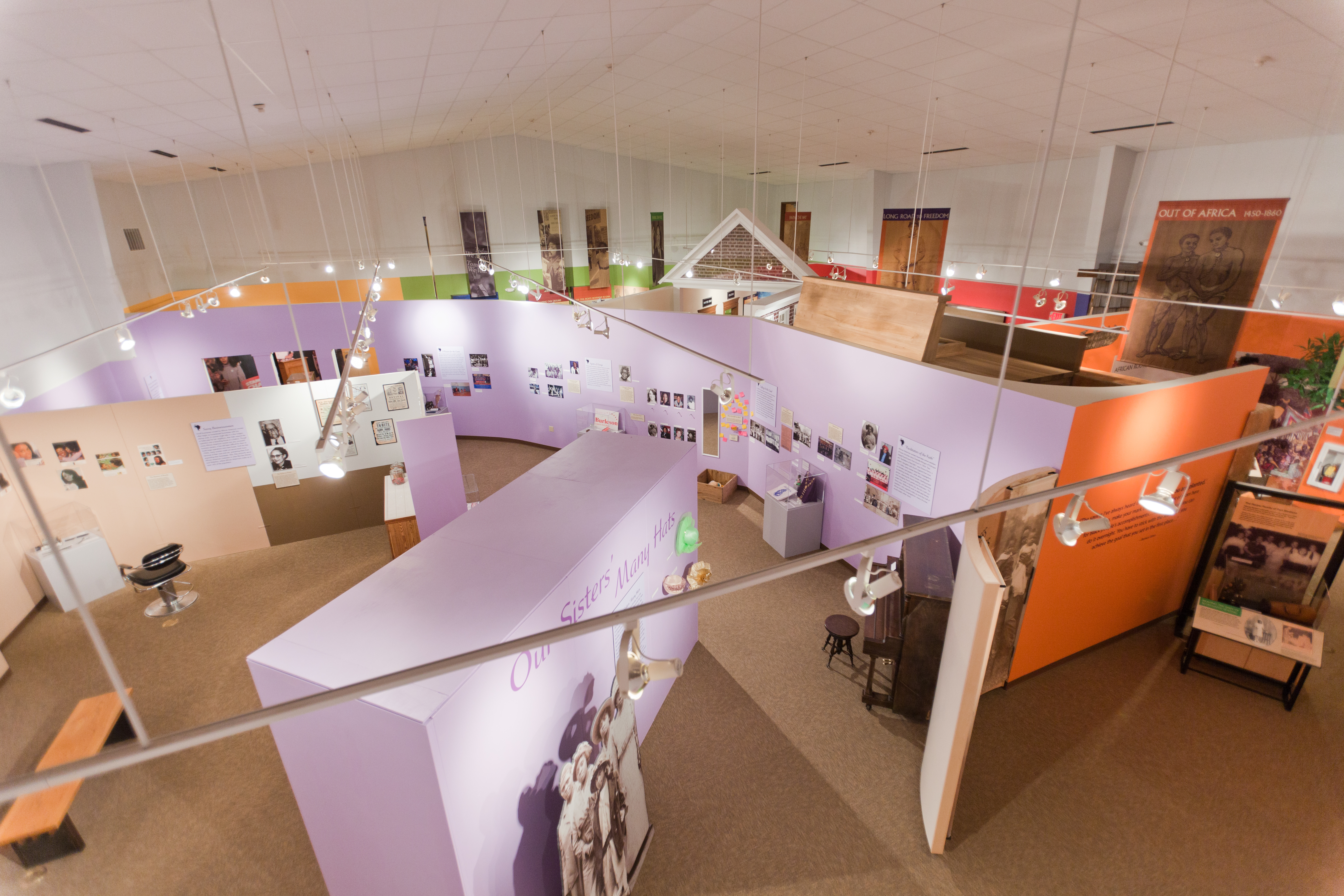 View of the Gale Sayers Changing Exhibit Gallery and the Endless Possibilities permanent exhibit.